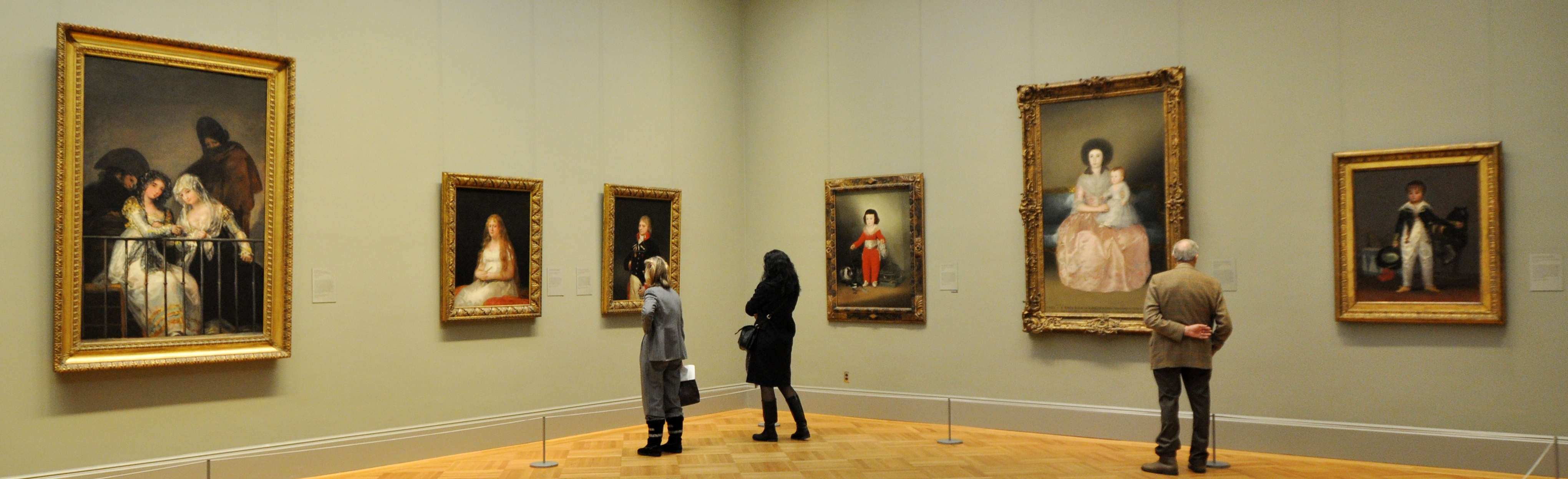 European paintings at Metropolitan Museum of Art (NYC, USA)